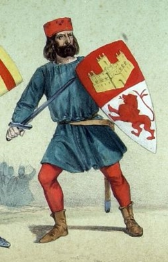 Montero de Espinosa en un dibujo realizado por el Conde de Clonard en su obra Álbum de Infantería Española, publicado en 1861